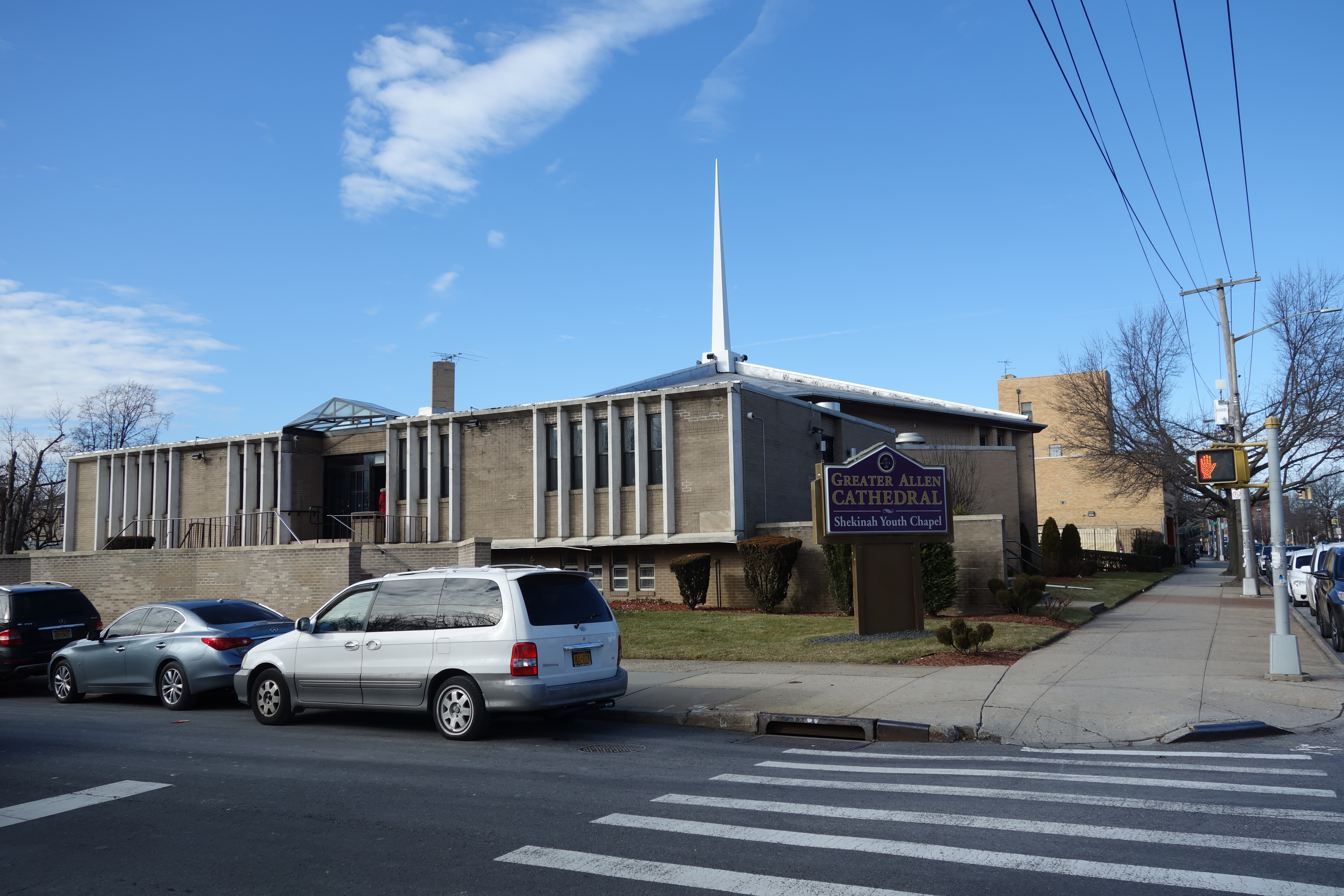 The Greater Allen Cathedral at the northwest corner of Merrick Boulevard and Sayres Avenue in St. Albans / South Jamaica, Queens.